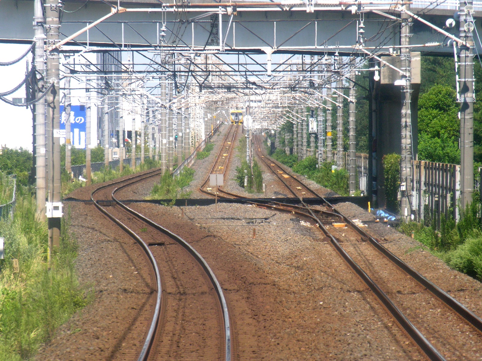 The Shin-Minato Signal Station on the Keiyo Line, between Inage-Kaigan Station and Chiba-Minato Station.